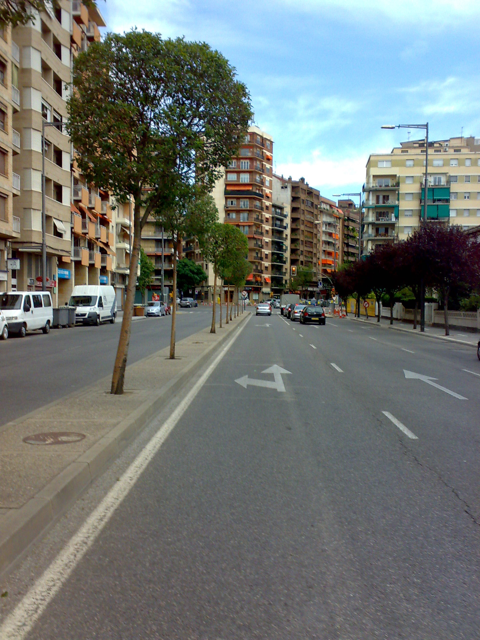 Avenue Alcalde Rovira Roure, in Lleida (Catalonia)